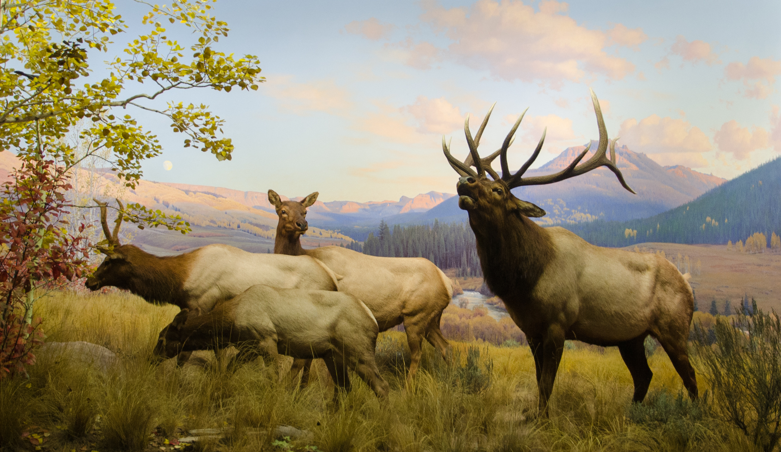 A wapiti diorama on display in the North American Mammals Hall at the American Museum of the Natural History in NYC.